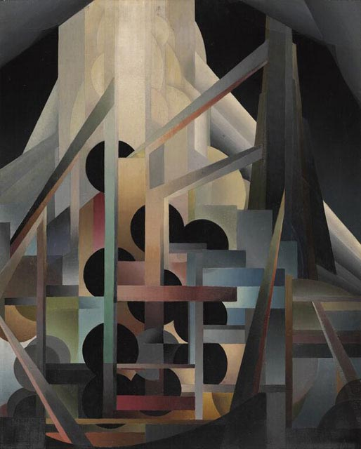 Ascending Forms